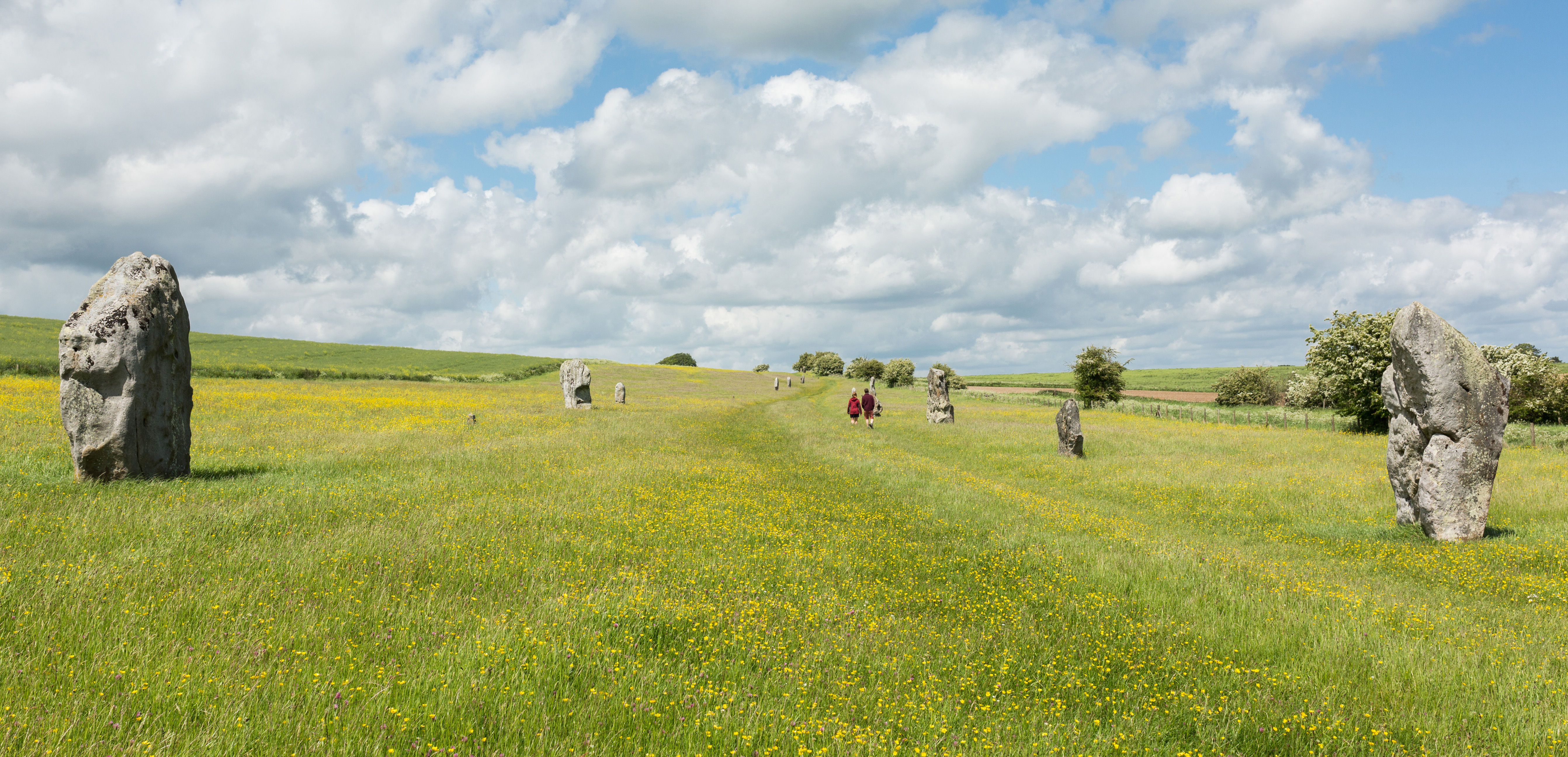 West Kennet Avenue facing north-west towards Avebury.